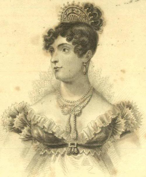 Caroline of Brunswick princess of Wales